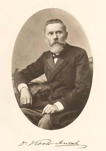 Antal Koch Hungarian geologist in cca. 1912